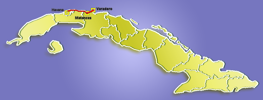 Outline map of Via Blanca highway in Cuba